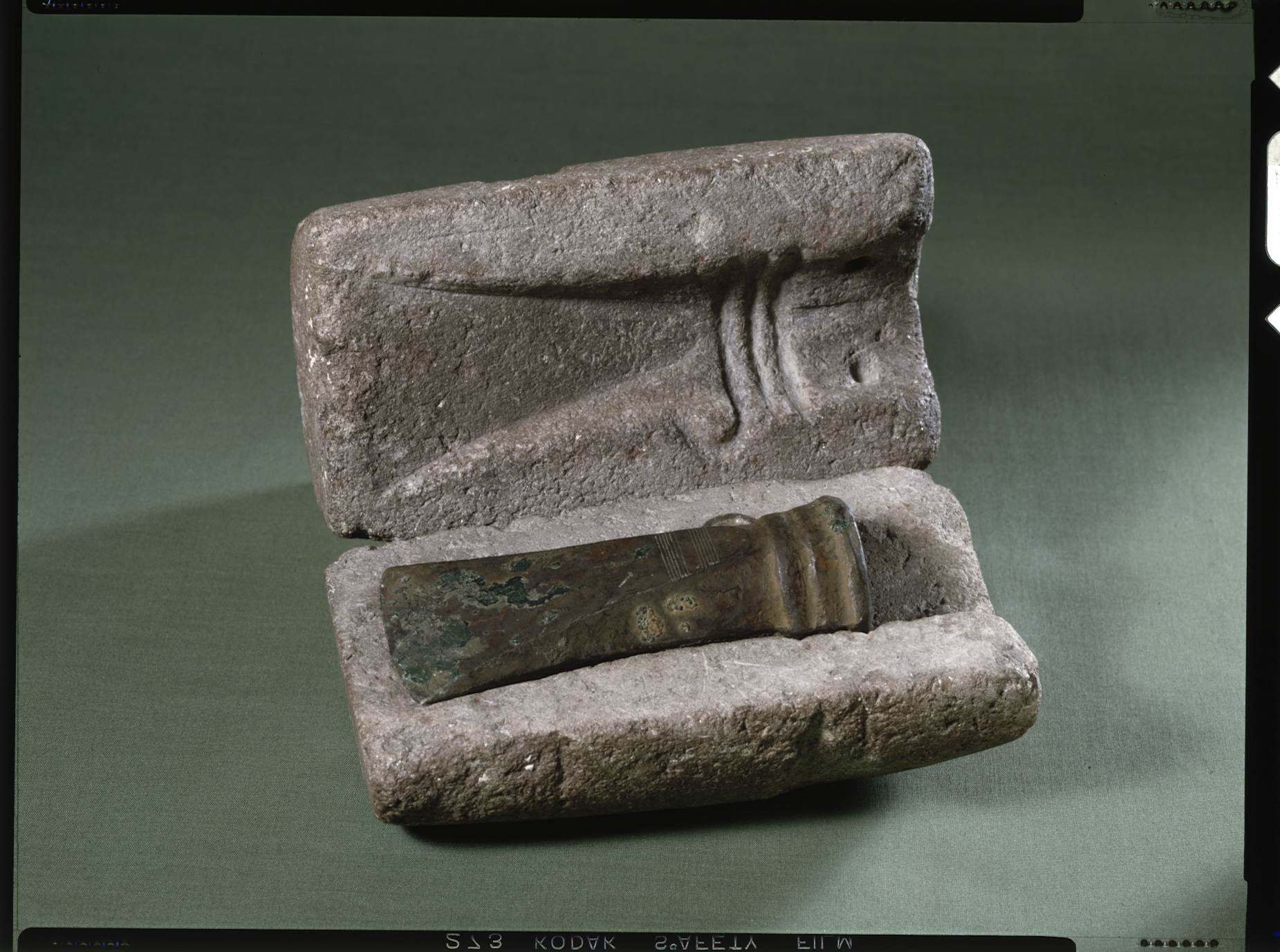 Casting mould (B5747) ja socketed axe (B832), Bregnemose By, Verninge sogn, Tanska